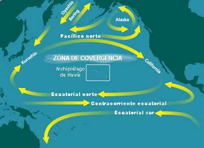 Map of the North Pacific Subtropical Convergence Zone (STCZ) within the North Pacific Gyre. Also the location of the Great Pacific Garbage Patch. (labels in Spanish)